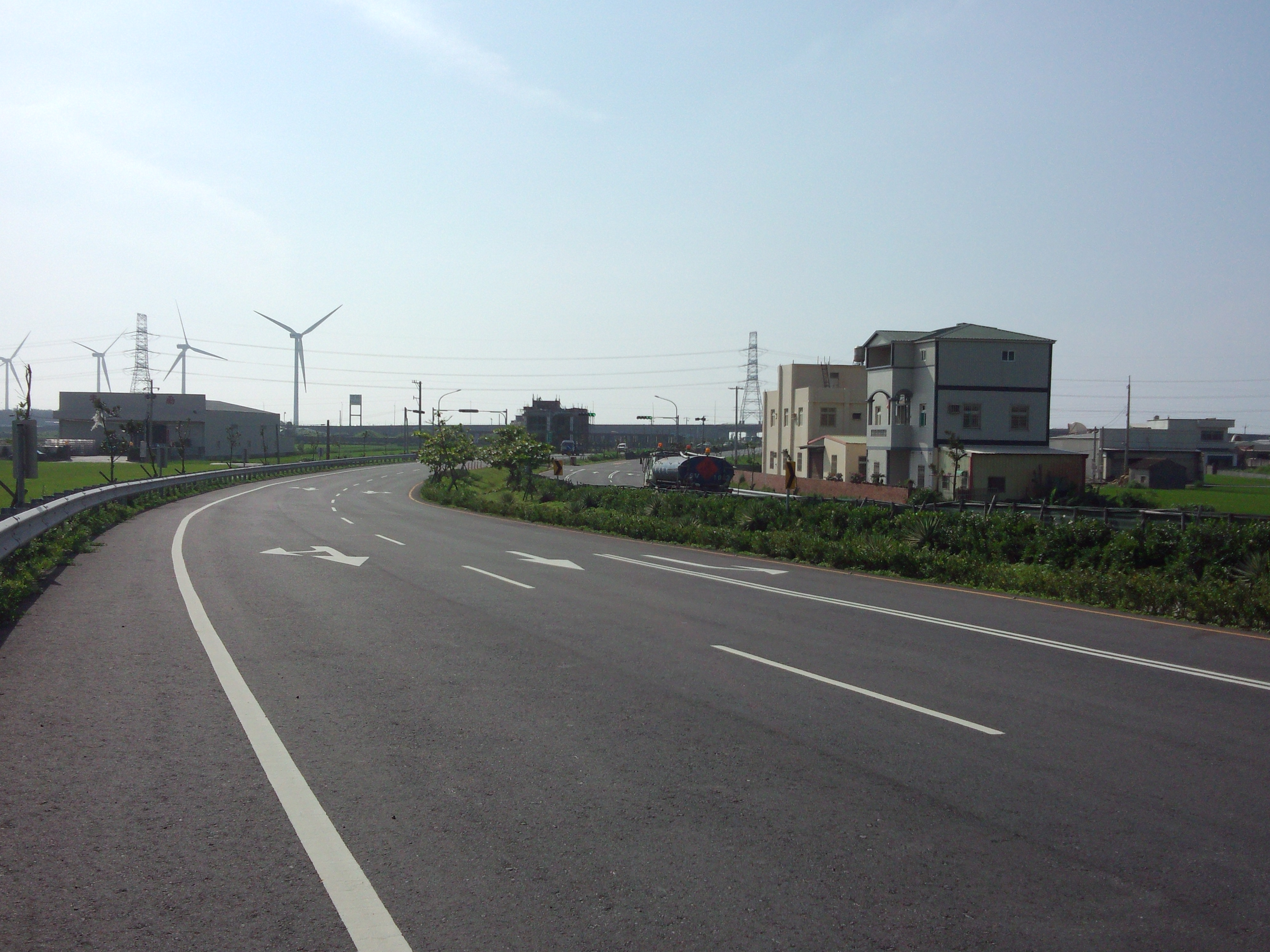 Shengang